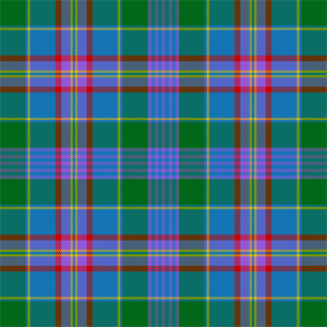 Tartan produced to represent the Ralston surname worldwide, created and promoted by